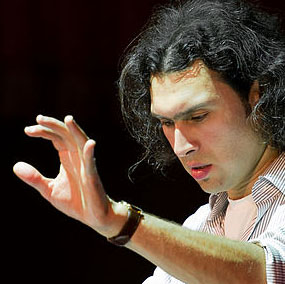 Vladimir Jurowski is a russian conductor.